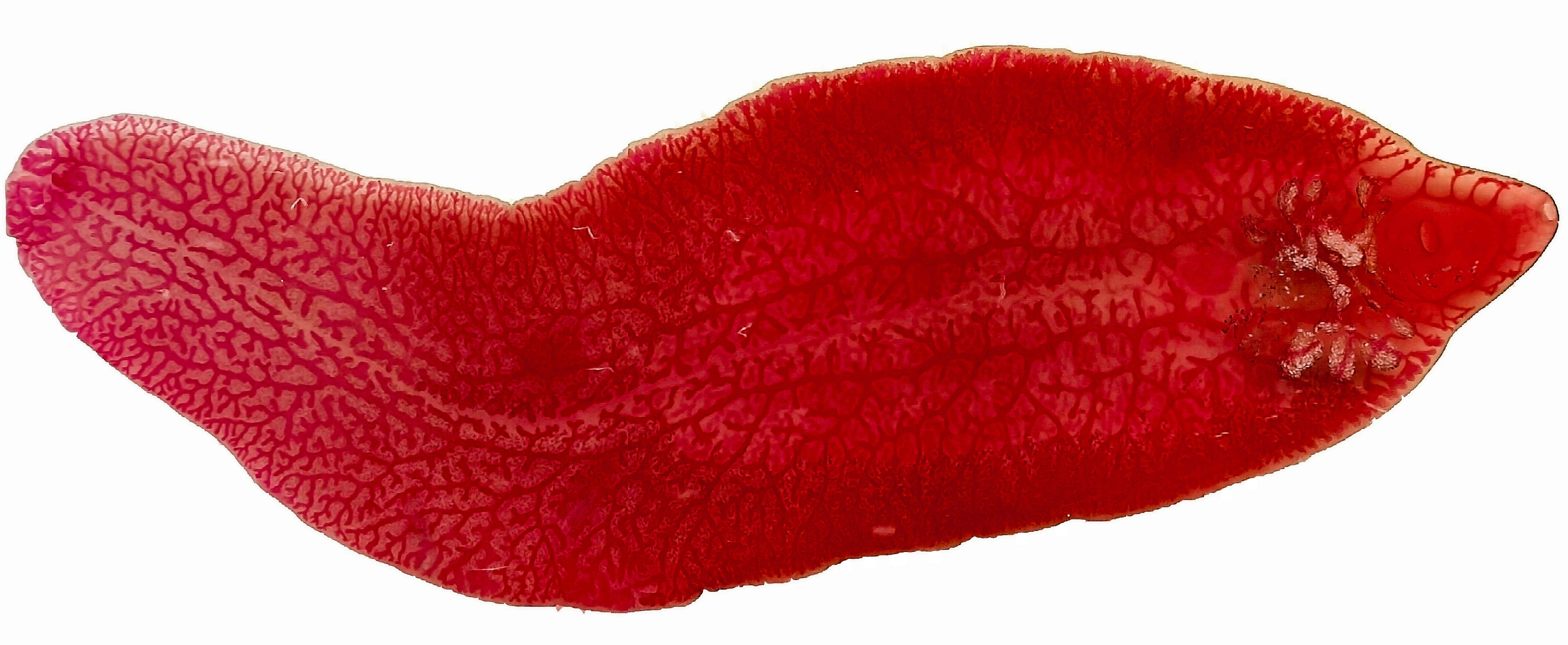 Montaje de un corte longitudinal de Fasciola hepatica (Linnaeus, 1758)